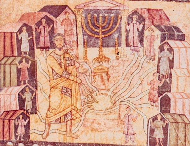 Moses wearing a toga touches the stone in the Sinai to bring forth water.